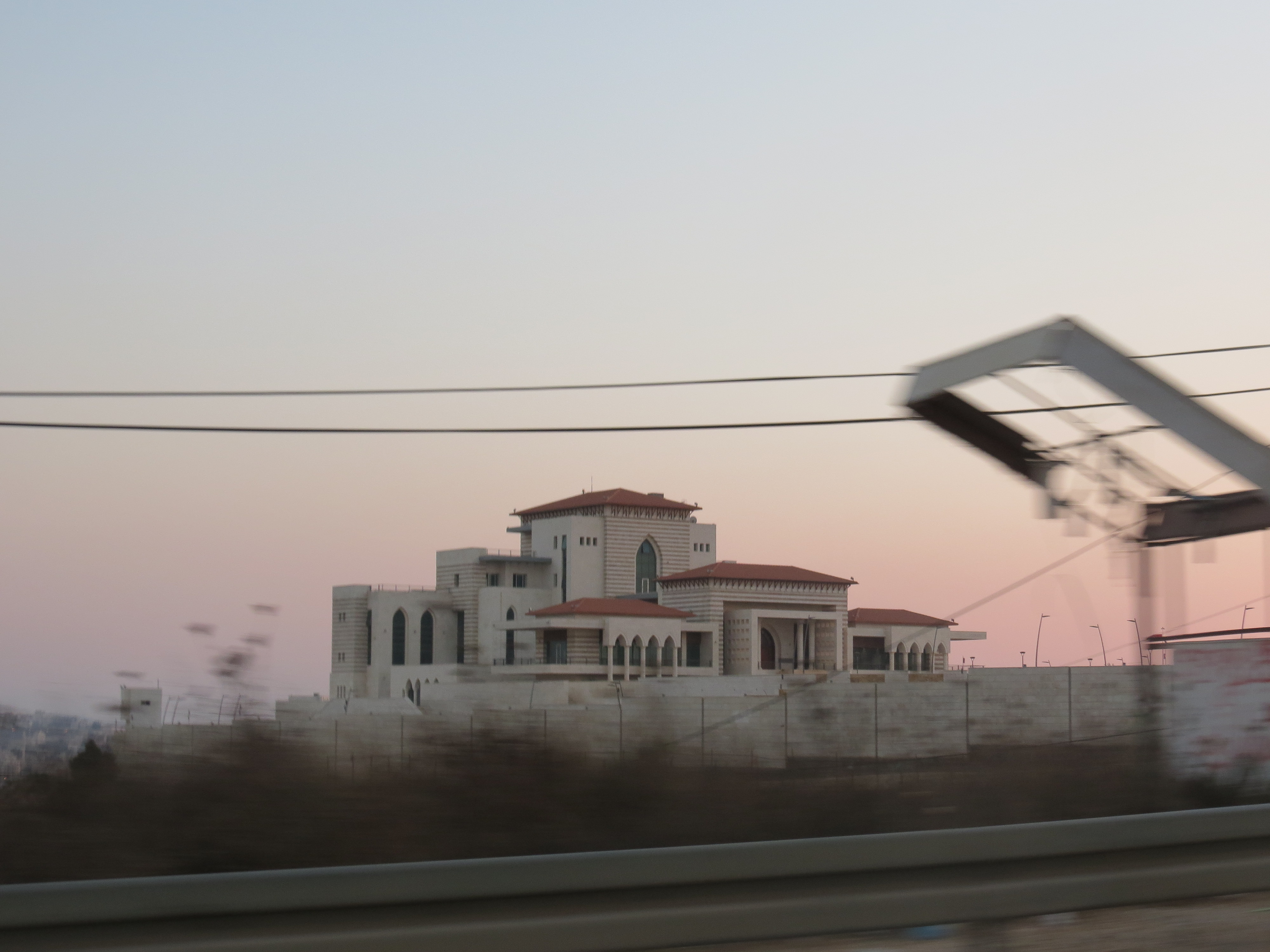 Presidential Guest Palace in Ramallah, the capital of the Palestinian Territories.